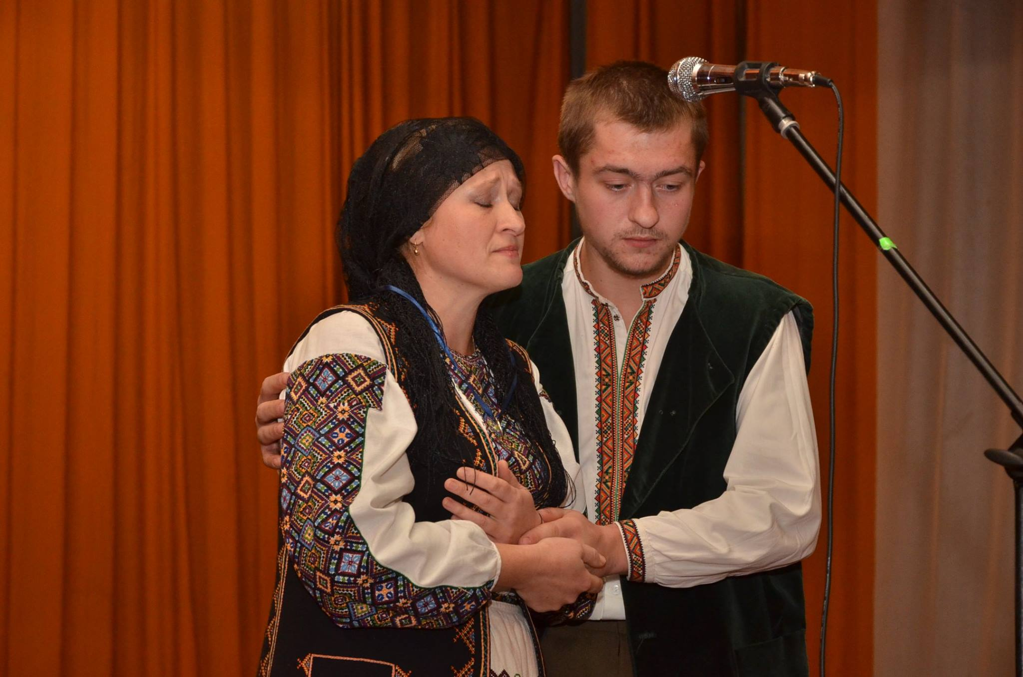 постановка "Останній бій" до УПА